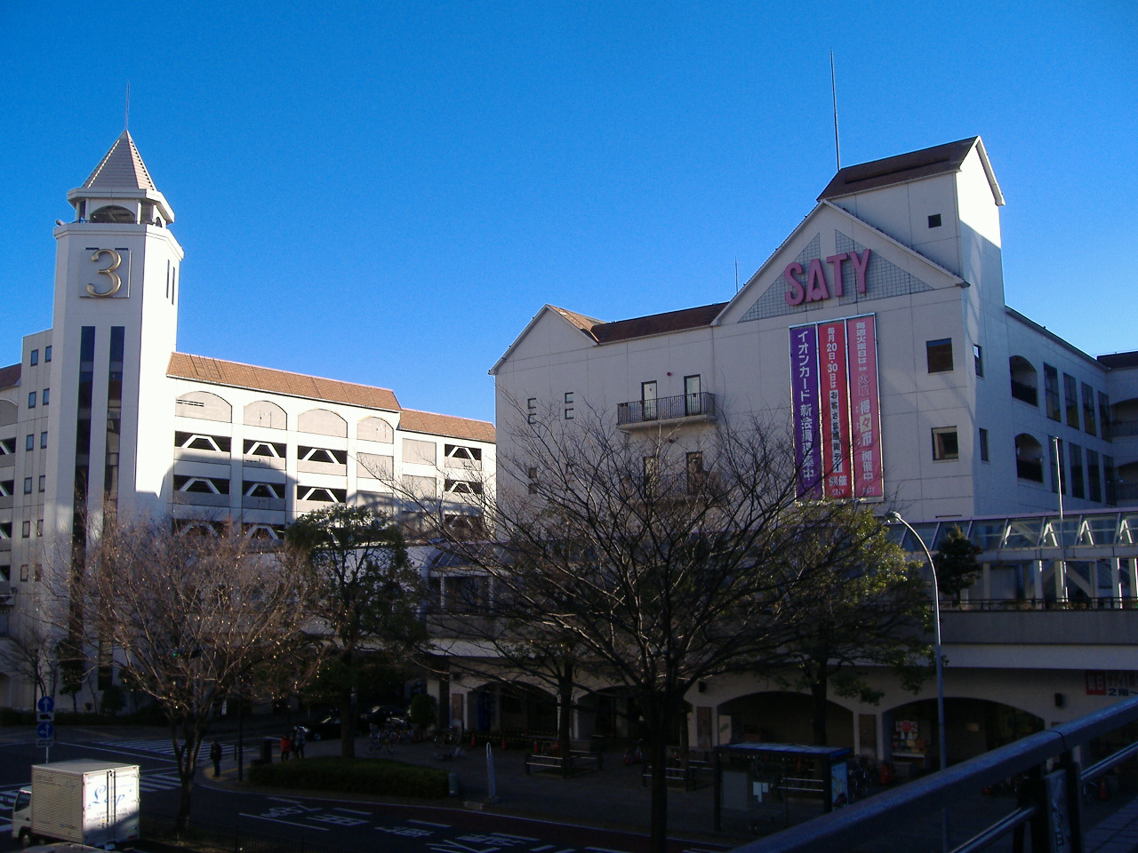 Shoppingcenter "Mycal Honmoku" (Yokohama, Japan)